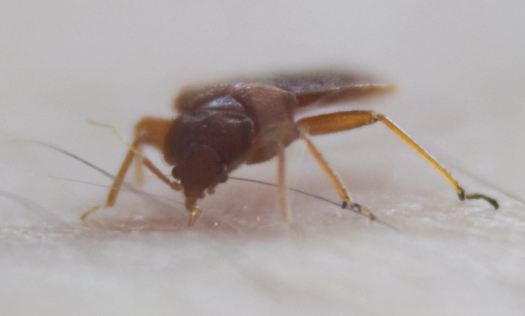 Bedbug (Cimex sp.)